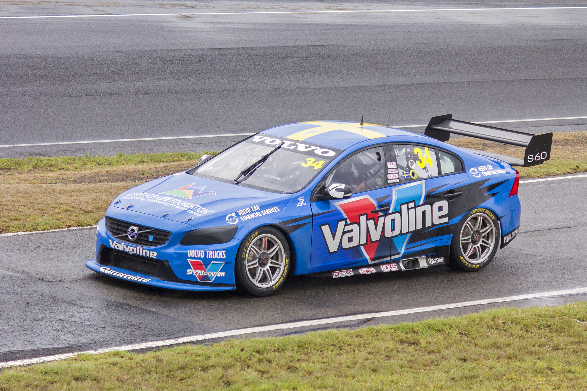 Robert Dahlgren in Volvo Polestar Racing Australia car 34, departing pitlane during the V8 Supercars Test Day at Sydney Motorsport Park.